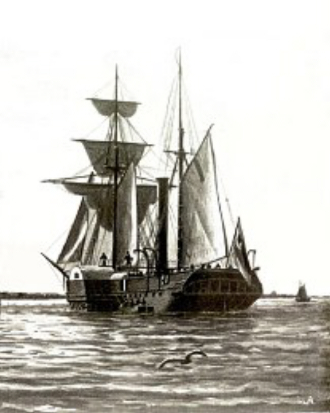 the Hamburg, a german warship of the Reichsflotte